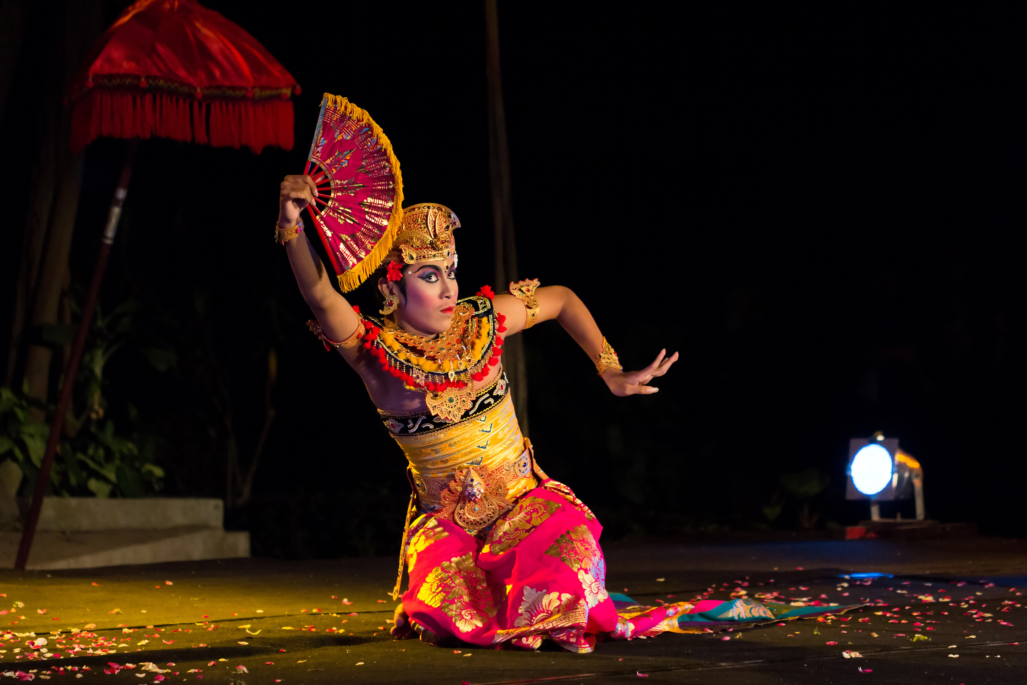 Sanata Dharma University's Sekar Jepun, a Balinese dance troupe, celebrates its 17th anniversary. Pictured here is the Kebyar Duduk Dance.